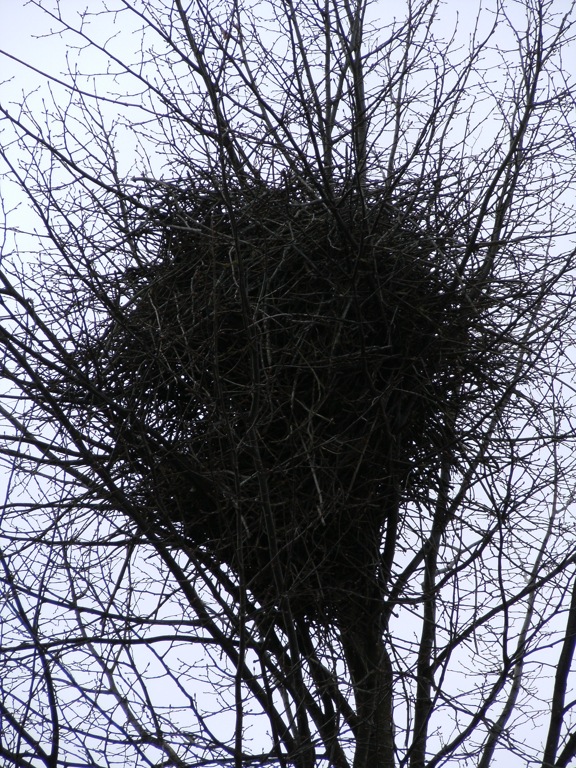 Closeup of a magpie nest.